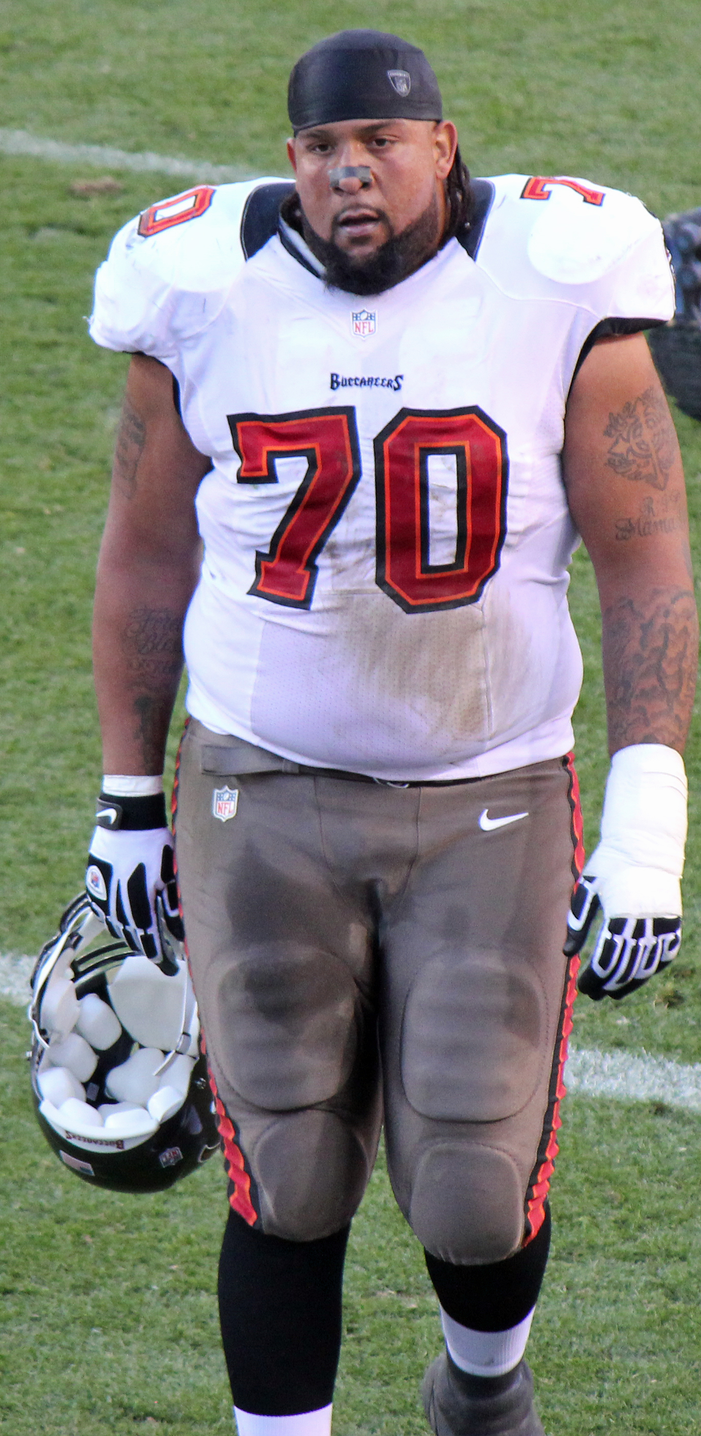 Donald Penn, a player on the National Football League.